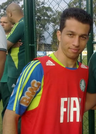 Cicinho, brazilian footballer who plays for Palmeiras, in 2011.